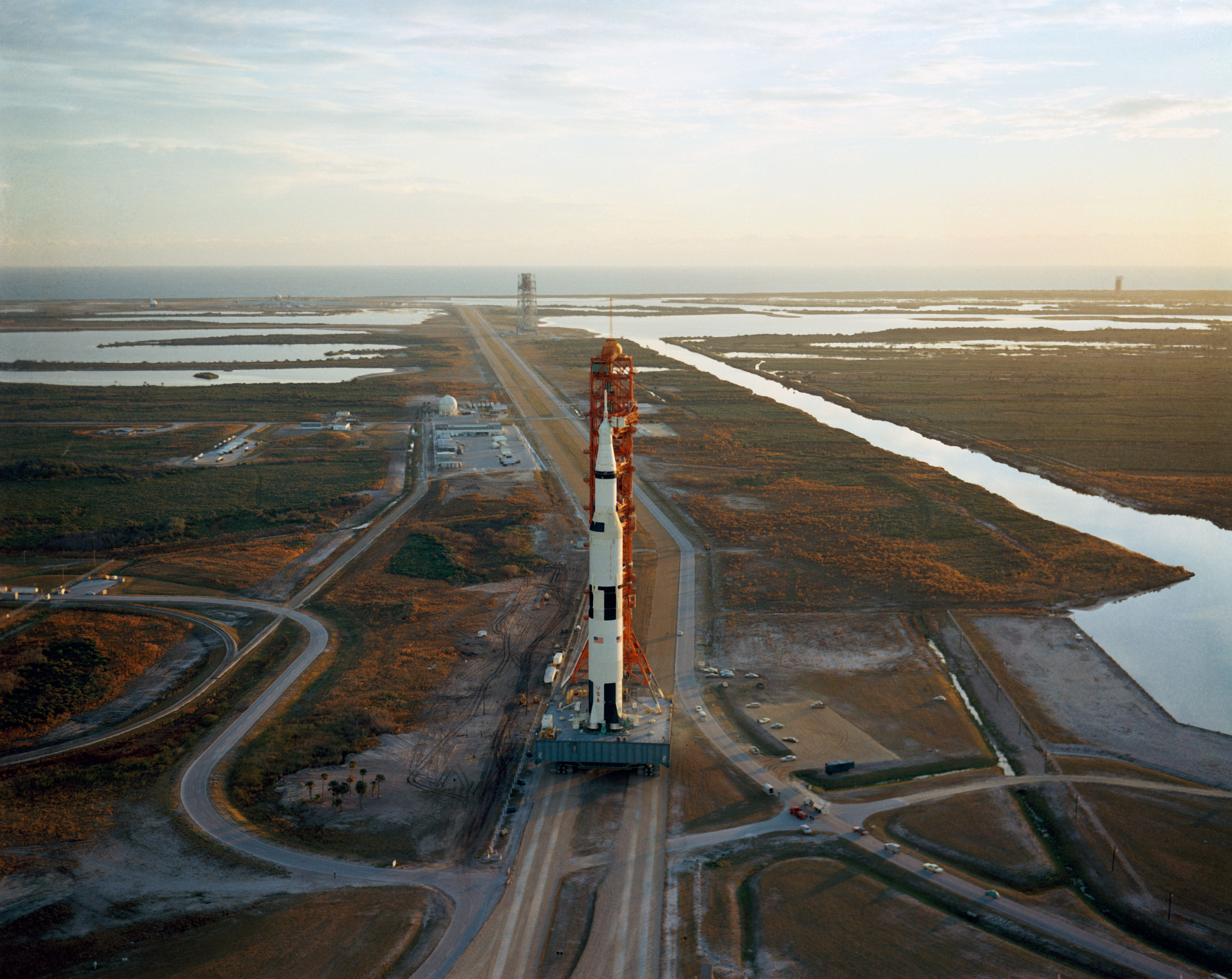 Aerial view of Apollo 9 space vehicle on way from VAB to Pad A Aerial view of Apollo 9 (Spacecraft 104/Lunar Module 3/Saturn 504) space vehicle on the way from the Vehicle Assembly Building (VAB) to Pad A, Launch Complex 39, Kennedy Space Center. The Saturn V stack and its mobile launch tower are atop a huge crawler-transporter (view looking toward Pad A)